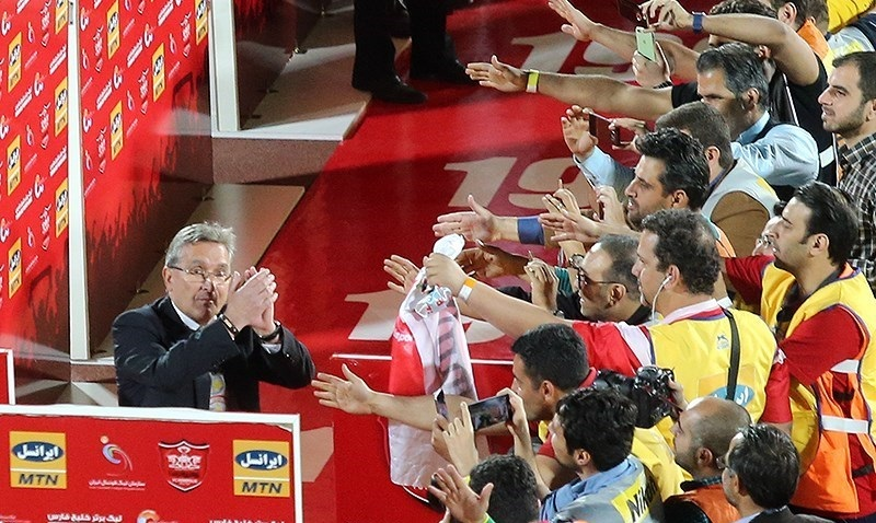 Persepolis F.C. title winning ceremony